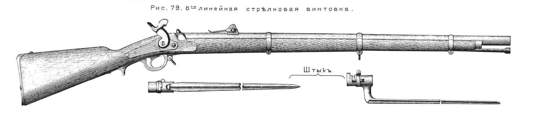 Russian percussion 6-line rifle M.1856